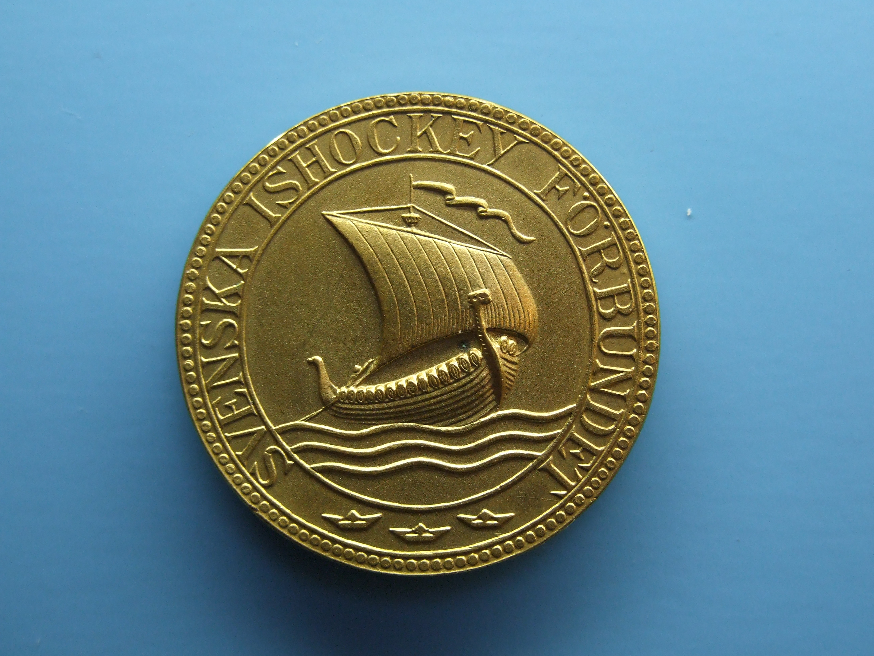 Copy of the gold medal won by the Czech ice hockey players at the World Championship held in Stockholm in 1949 - One Century Of Czech Ice Hockey Exhibition, National Museum in Prague: [1]